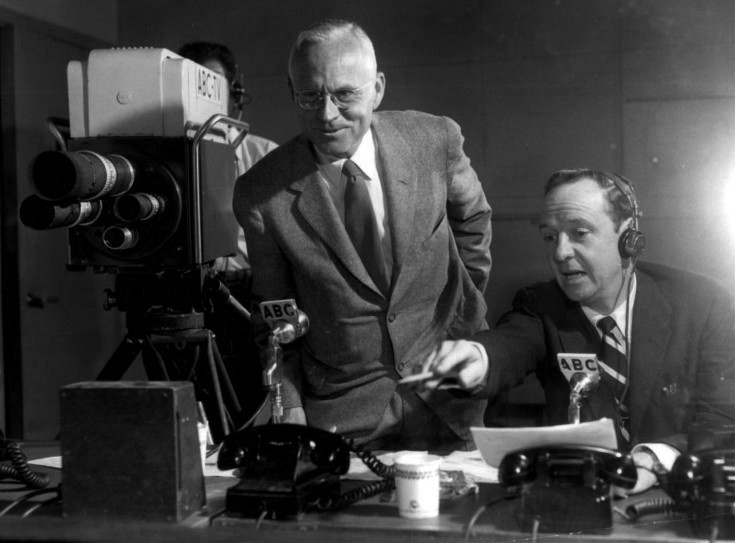 Publicity photo of newsman/game show host John Daly and Quincy Howe covering Presidential Conventions for ABC News.